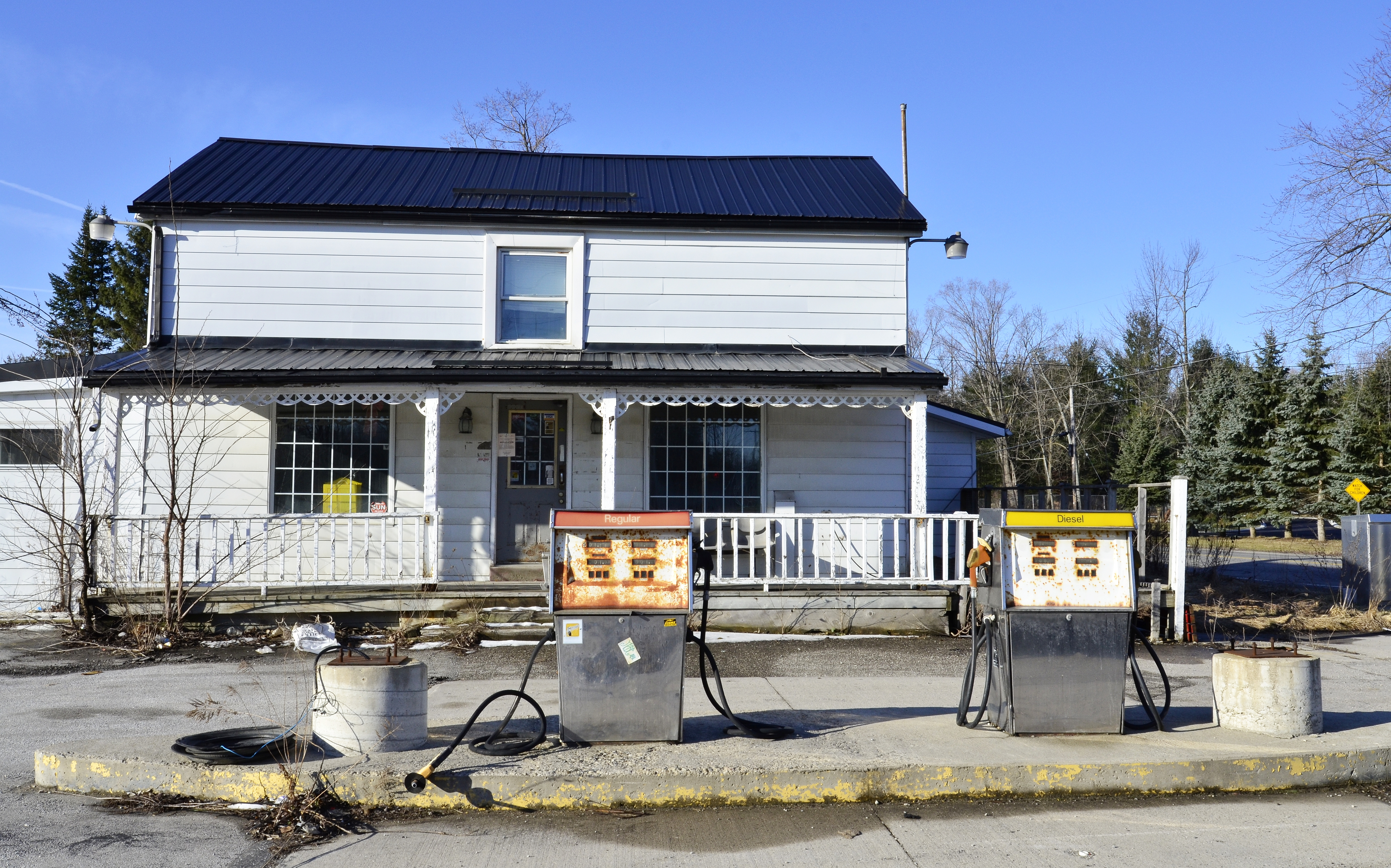 Abandoned store in Speyside, Ontario.